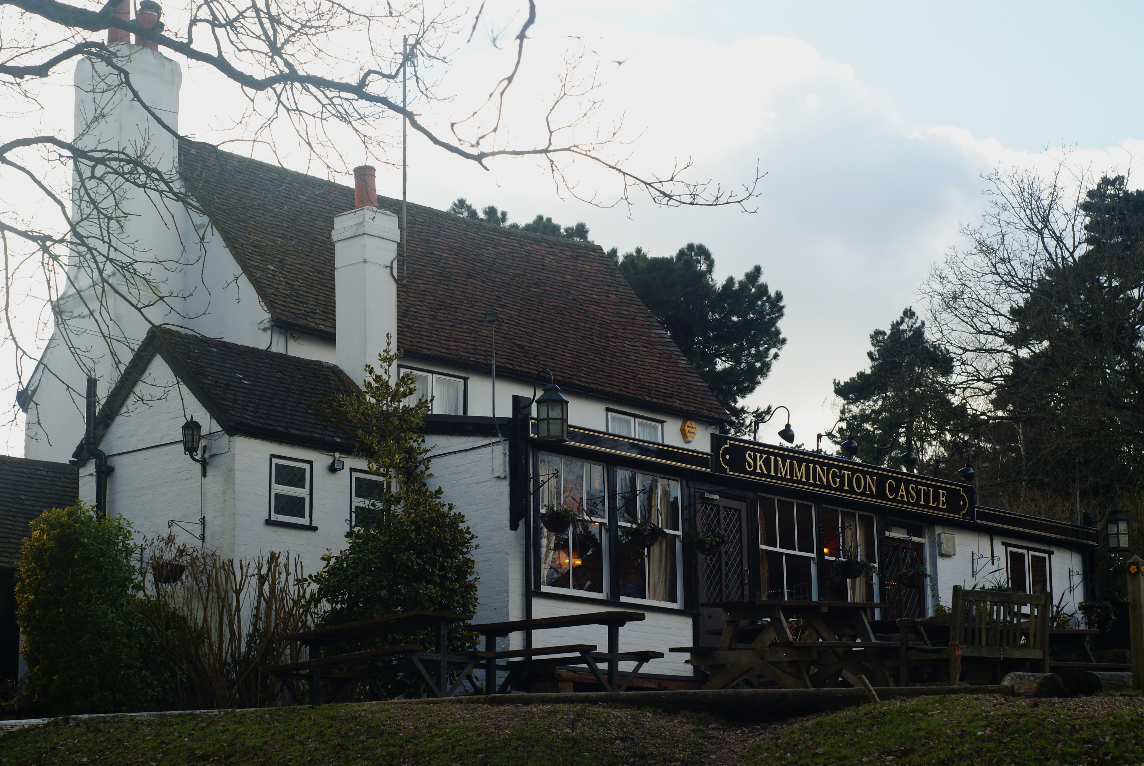 Skimmington Castle, Reigate Heath It looked very tempting, on a cold day, and it had been a while since my previous visit ...... but I decided to press on.